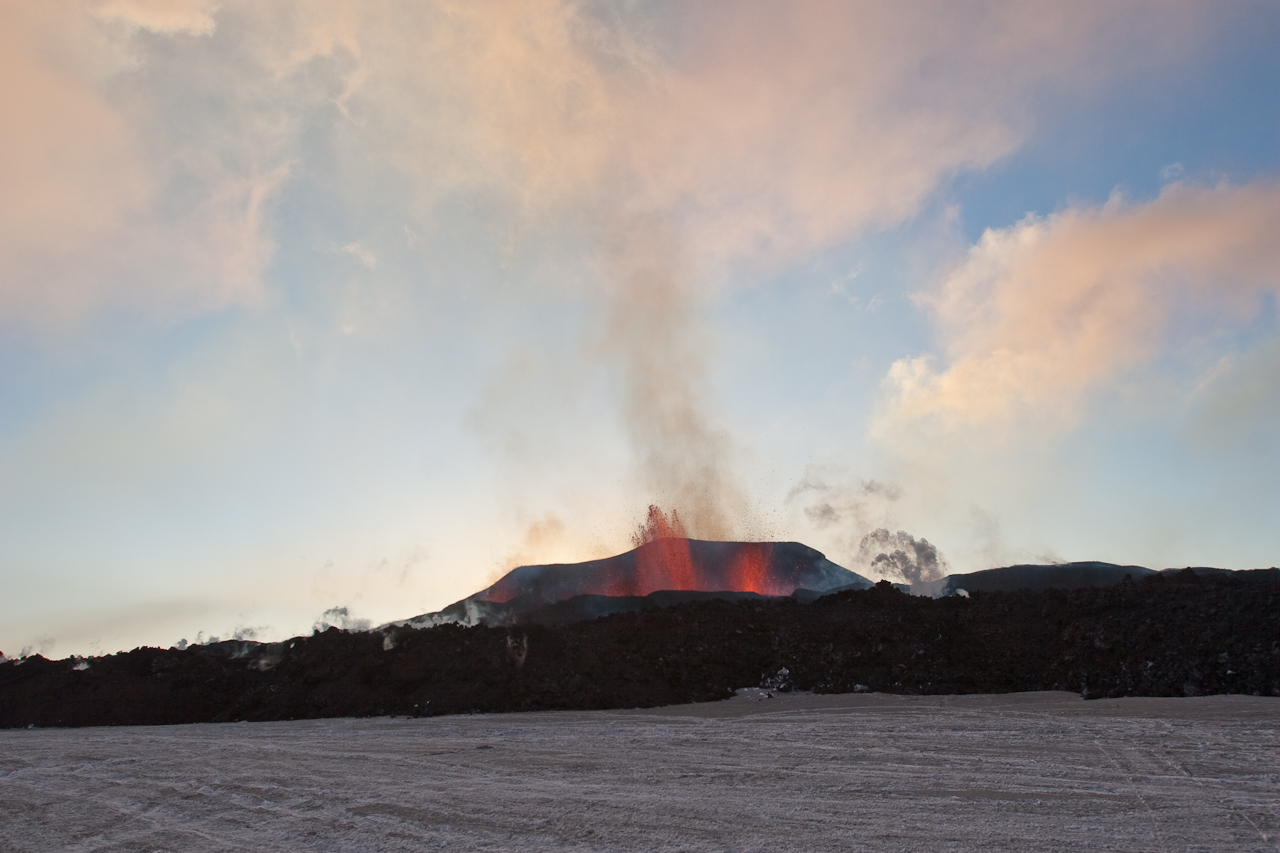 Volcanic eruption at Fimmvörðuháls in Iceland on its 6th day